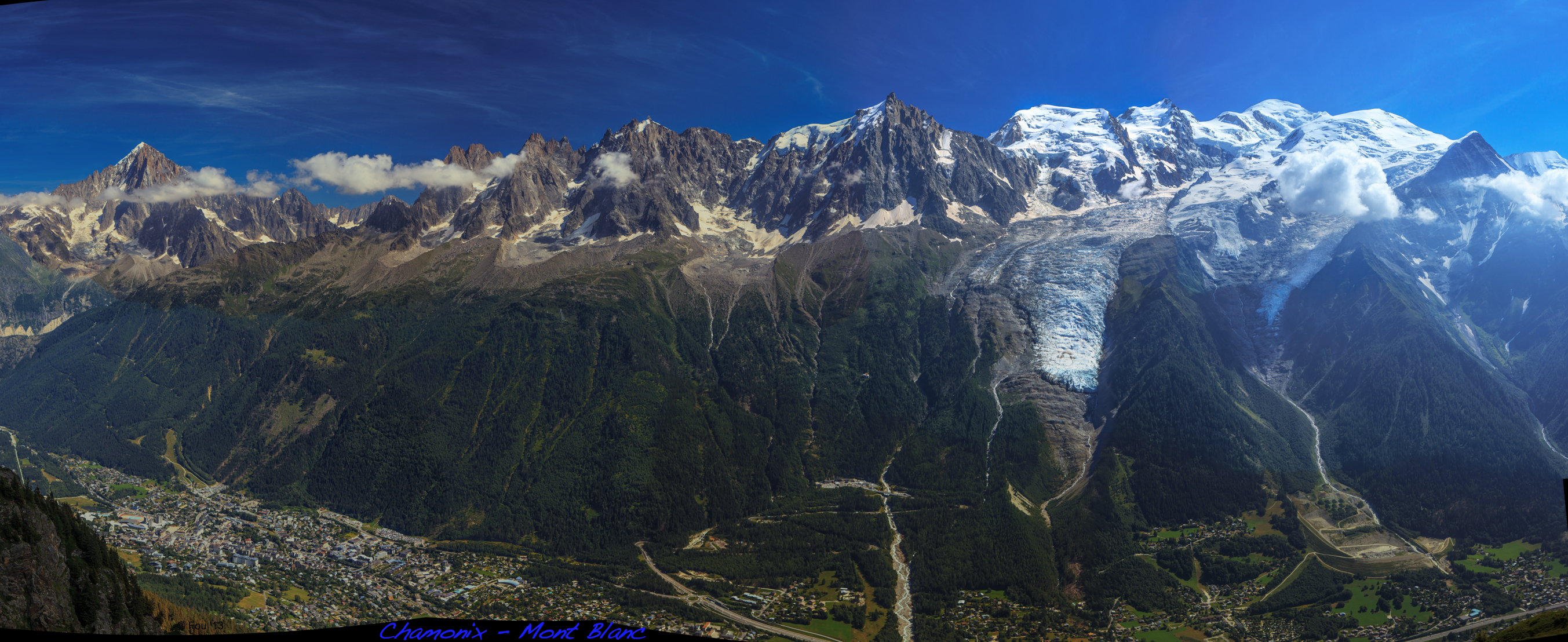 Chamonix Valley Panorama...from Aiguille Verte to Mt Blanc